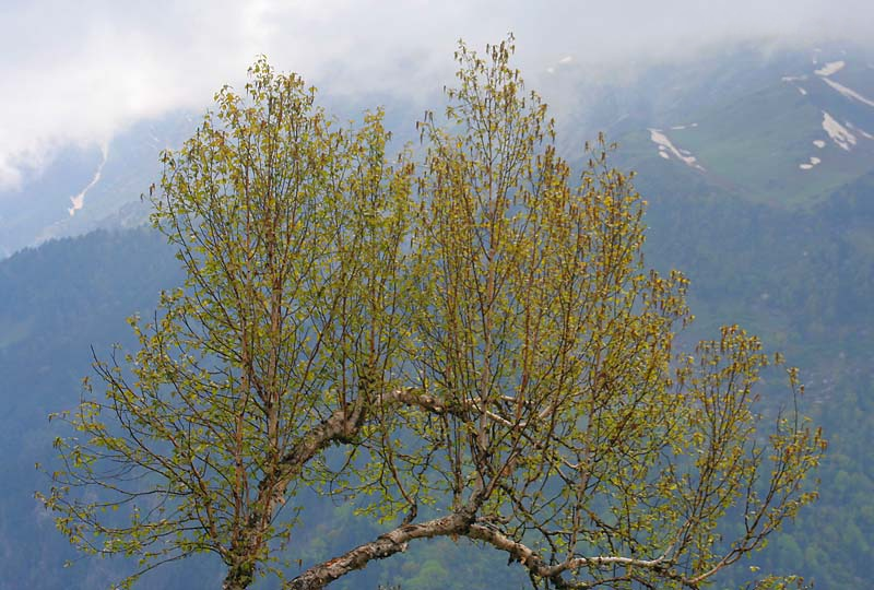 Birch (Bhojpatra), possibly Betula utilis subsp. jacquemontii, at 14.18 hrs. from Mailee Thaatch Camp during Saurkundi Pass Trek in Kullu District of Himachal Pradesh, India.